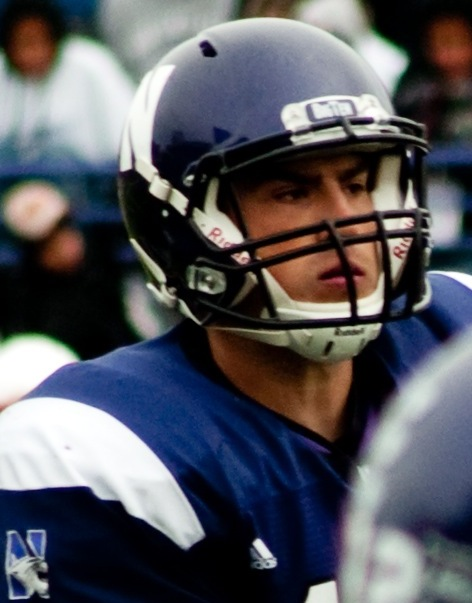 Northwestern QB #13 Mike Kafka, protected by RB #19 Arby Fields, takes the snap against Miami of Ohio at Ryan Field, Evanston, IL